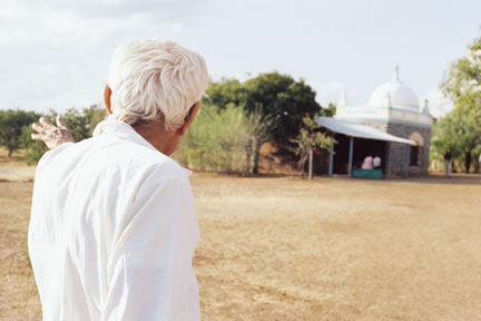 Padri points out the landscape of Upper Meherabad. Meher Baba's samadhi can be seen in the background.